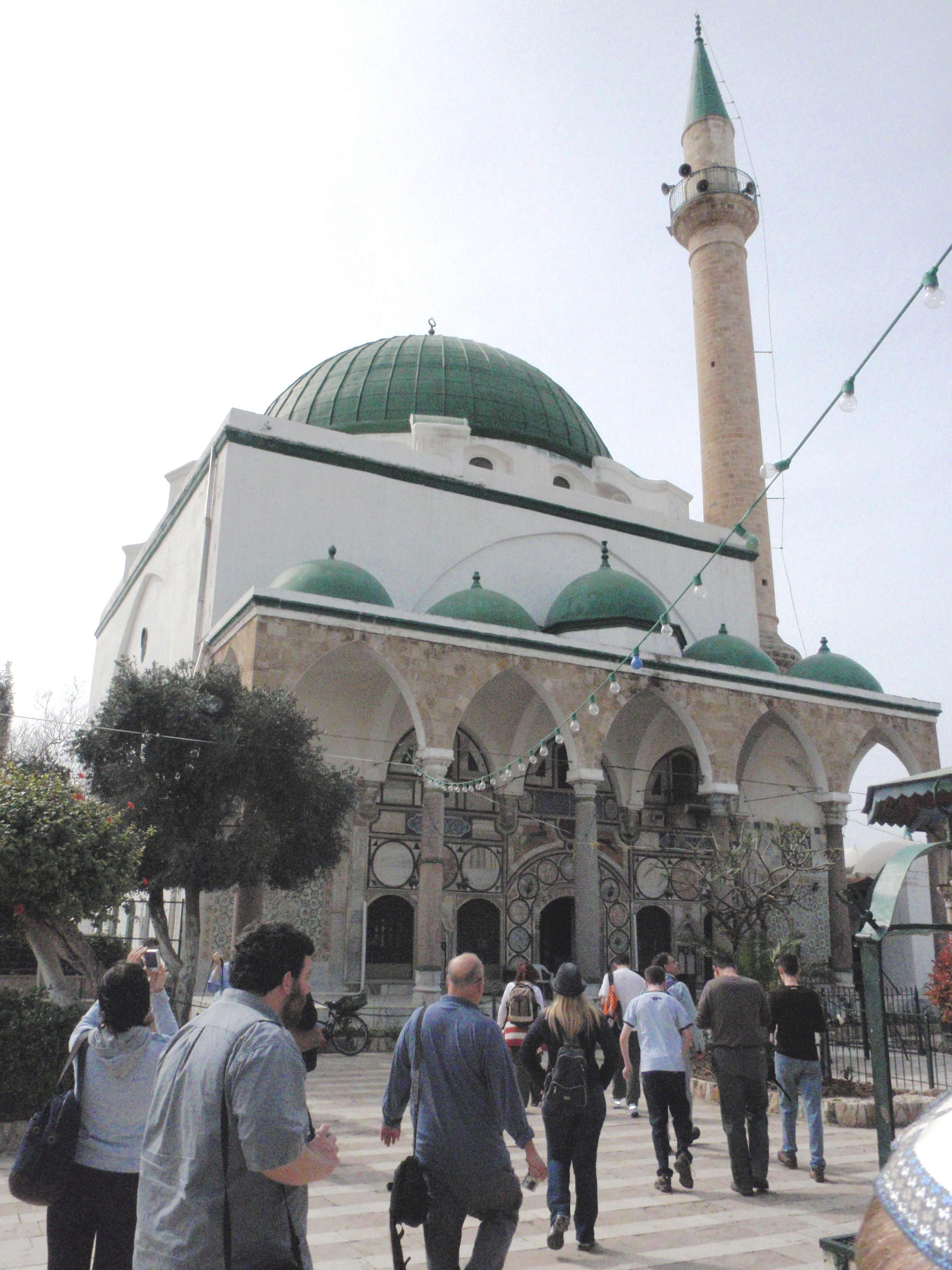 Mosque of Al-Gazar.